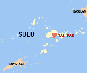 Map of the Sulu showing the location of Talipao